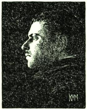 Illustration from photograph of Col. Henry Wharton Shoemaker, by Miss Katharine H. McCormick